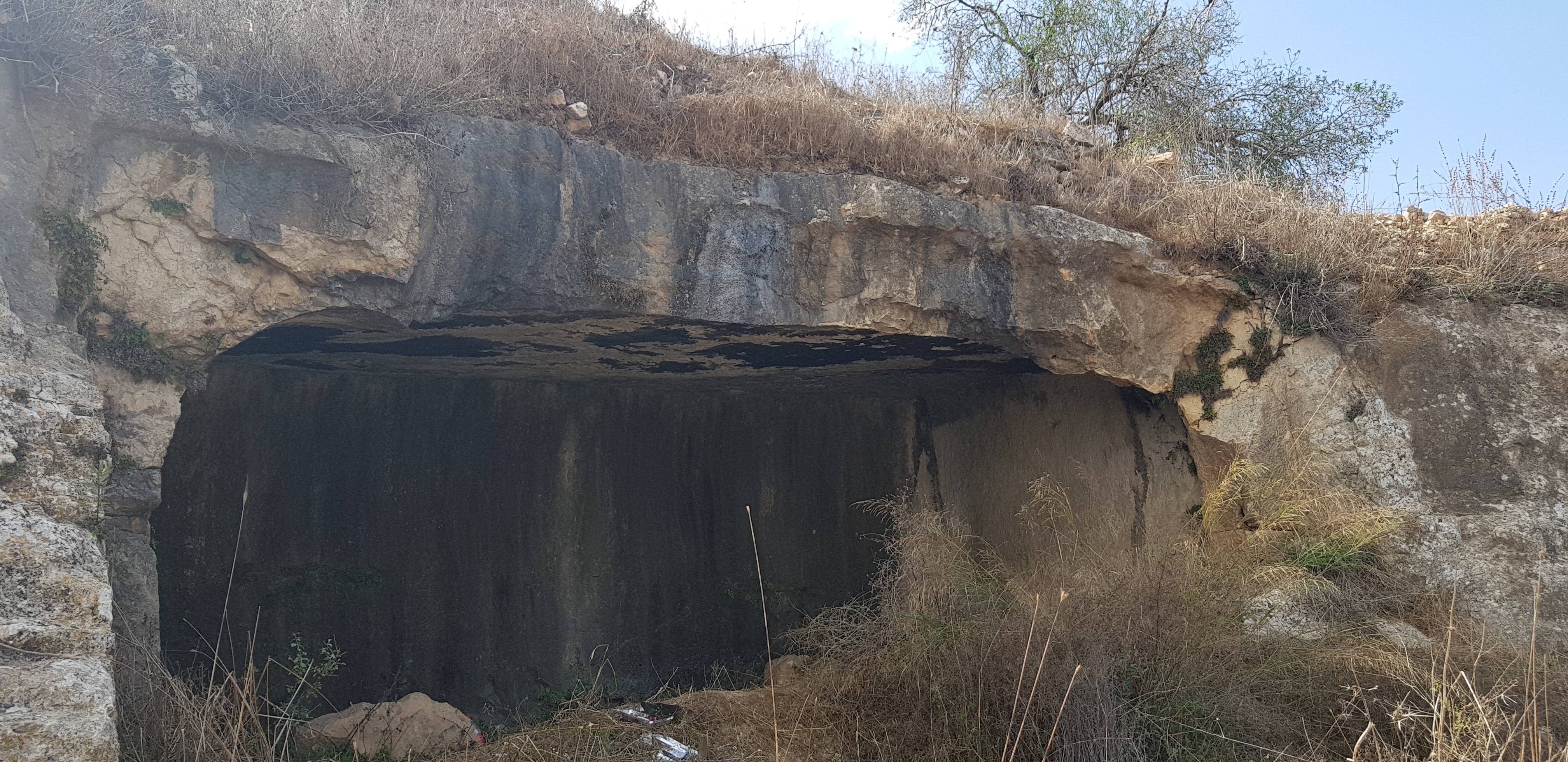 Open a burial cave near Hirbet Tibne